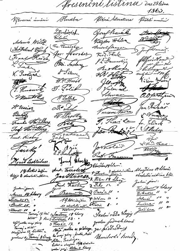 Attendance list of newly founded Czech syndicate Umělecká beseda from 1863